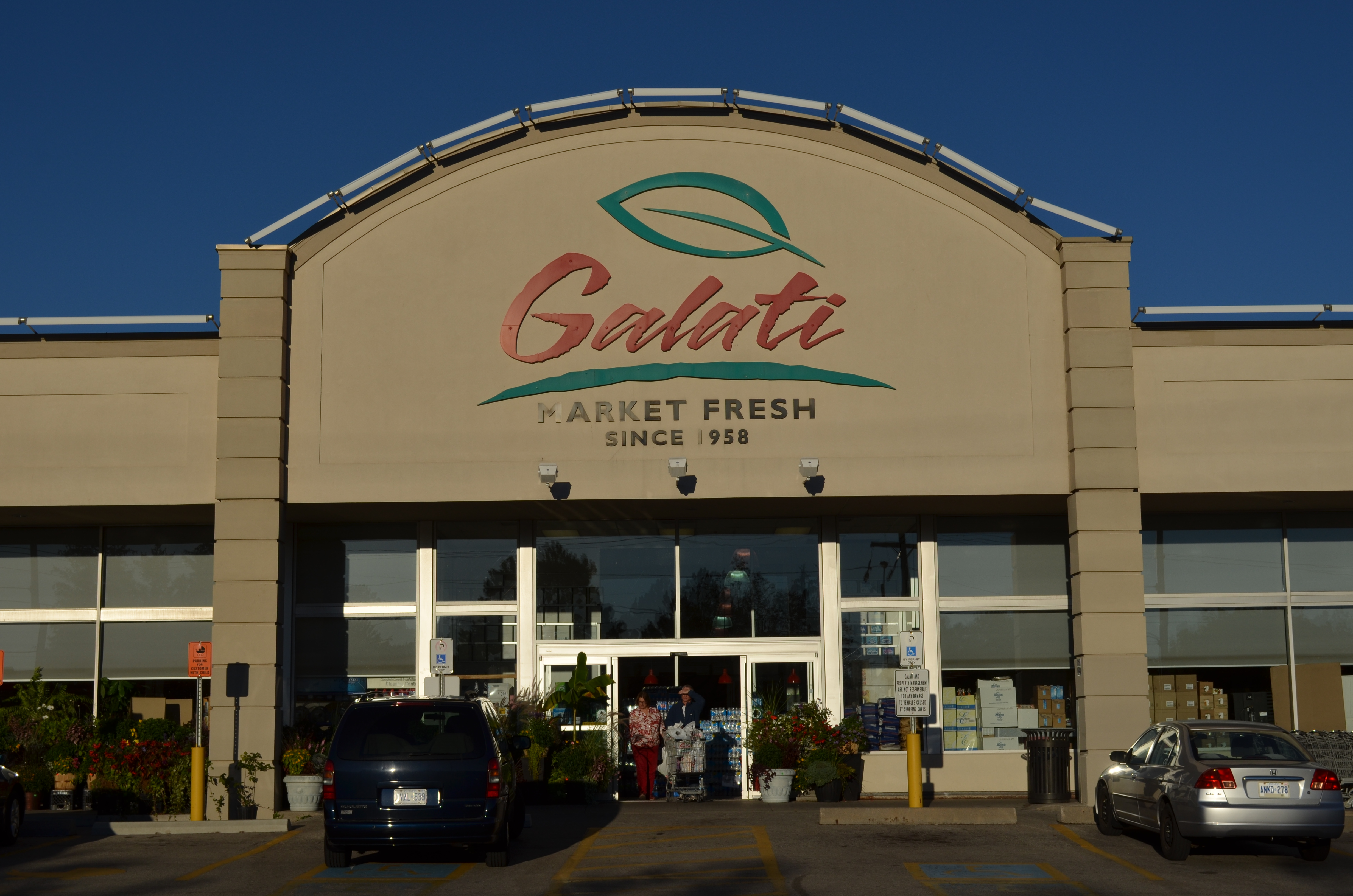 Galati Market Fresh5845 Leslie Street south of Steeles